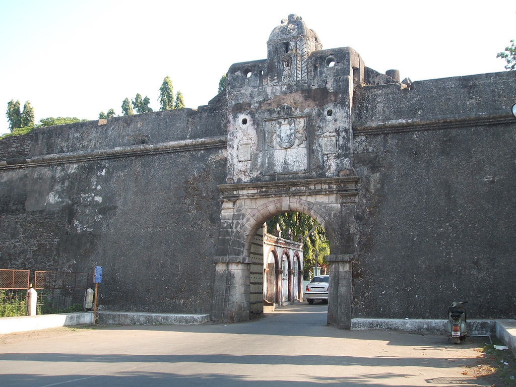 Fort of Nani Daman/Fort of St.Jerome